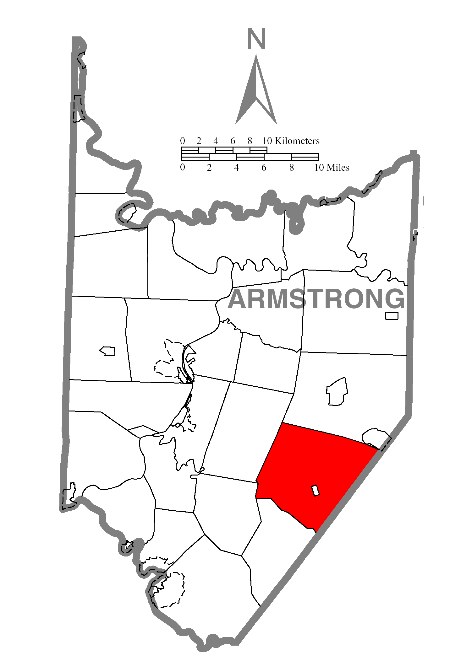 A map of Armstrong County showing Plumcreek Township, Pennsylvania (alternate) highlighted on the map.